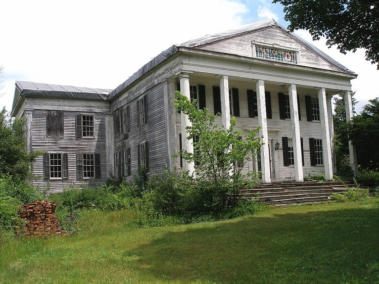 Rumsey Hall, Cornwall, Connecticut. This building was demolished in 2010.